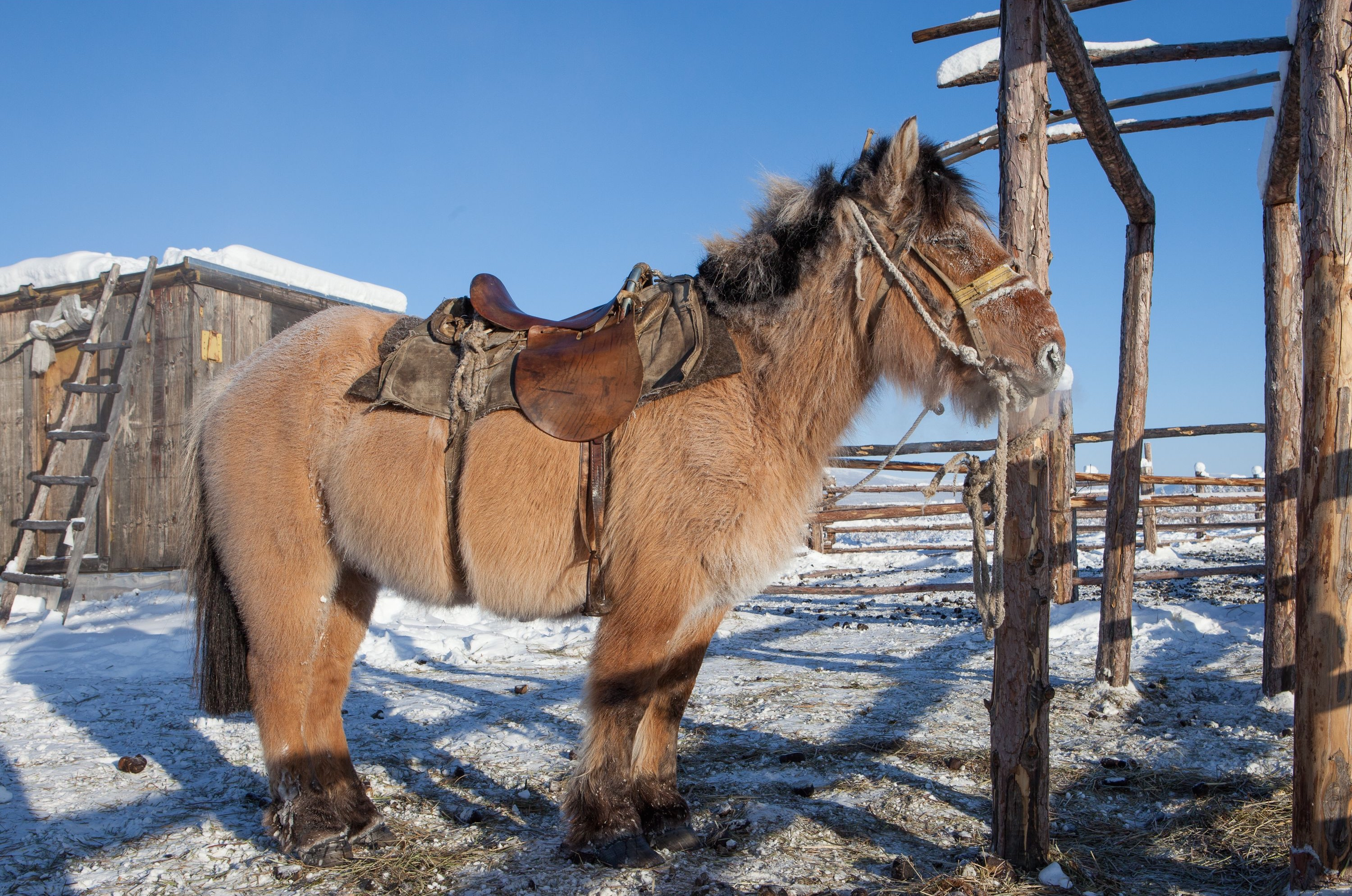 This is a yakutian horse thaken in Oymyakon in February this year , these horses stay outside during the winter , they must stand temperatures that can drop far below -60 they have an incredible fur coat and find their own food under the snow .. once every 4 weeks all horses are brushed with a large metal brush to remove the ice clumps witch build up in their fur to make sure that the isolation keeps working perfectly .. here the horse breeder just arrived to say hello , then he left again to find the horses ..